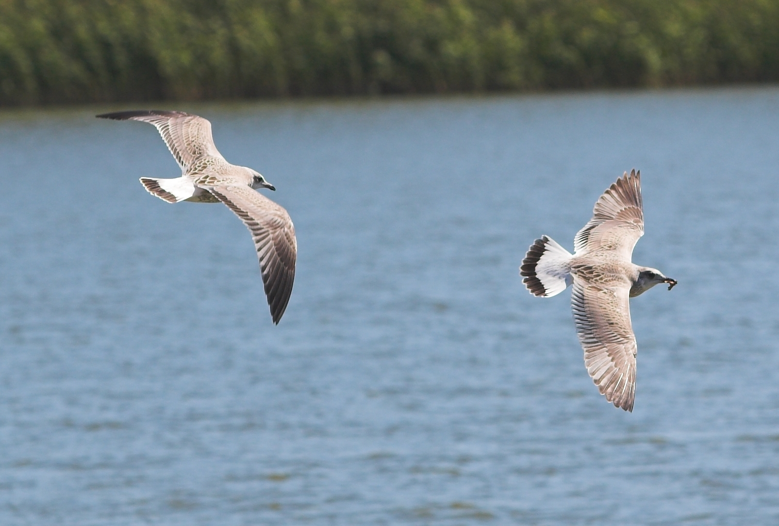 Two Common Gulls Larus canus in a chase. Photo by Thermos.